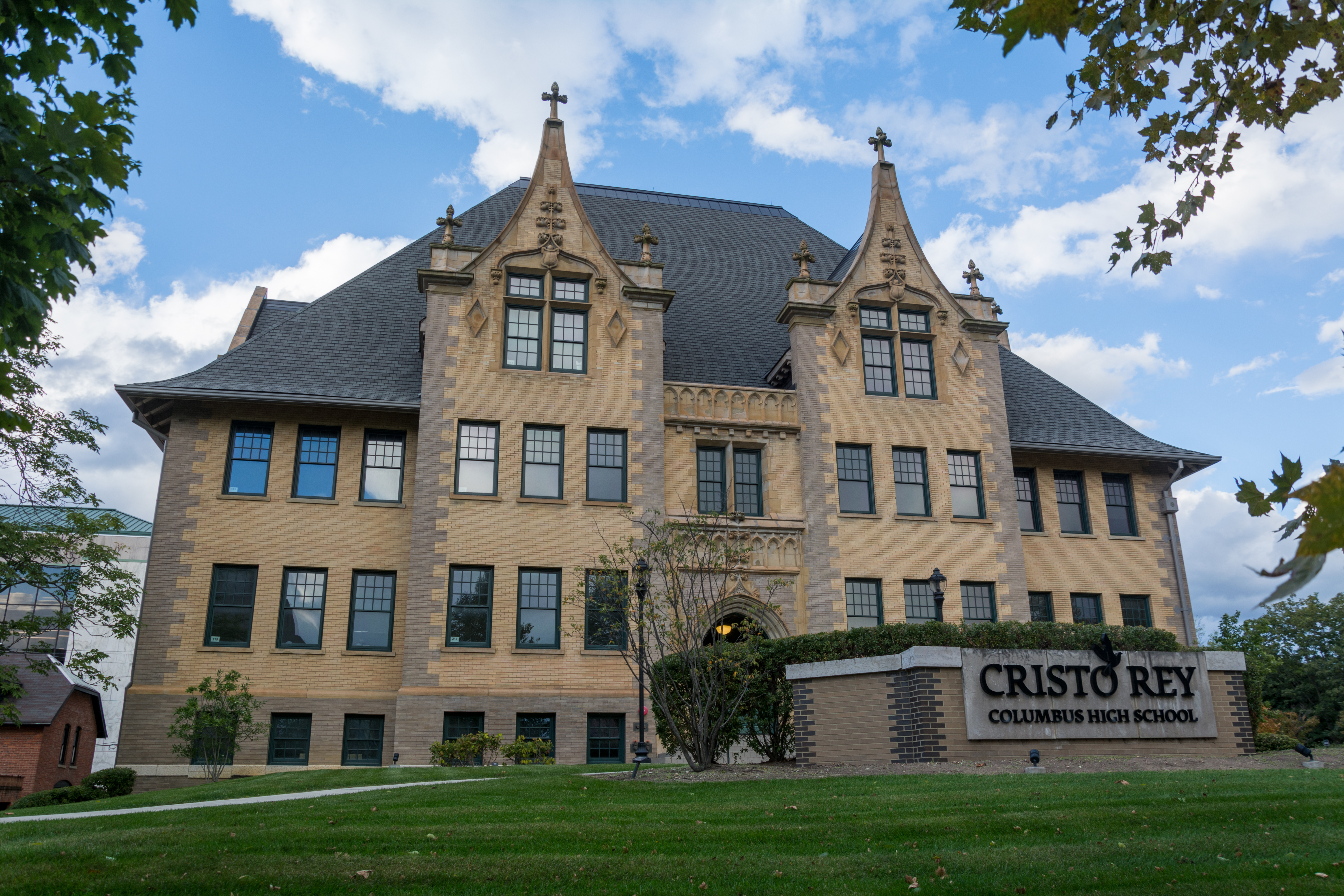 Cristo Rey Columbus High School, Columbus OH.